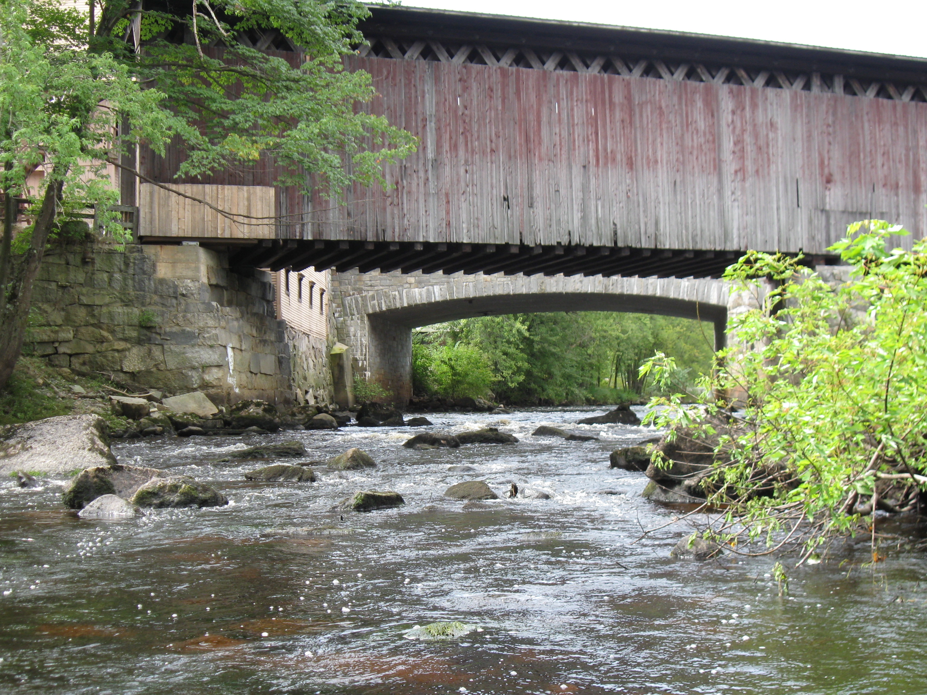 Bridges over the Contoocook River in Contoocook. September, 2009.